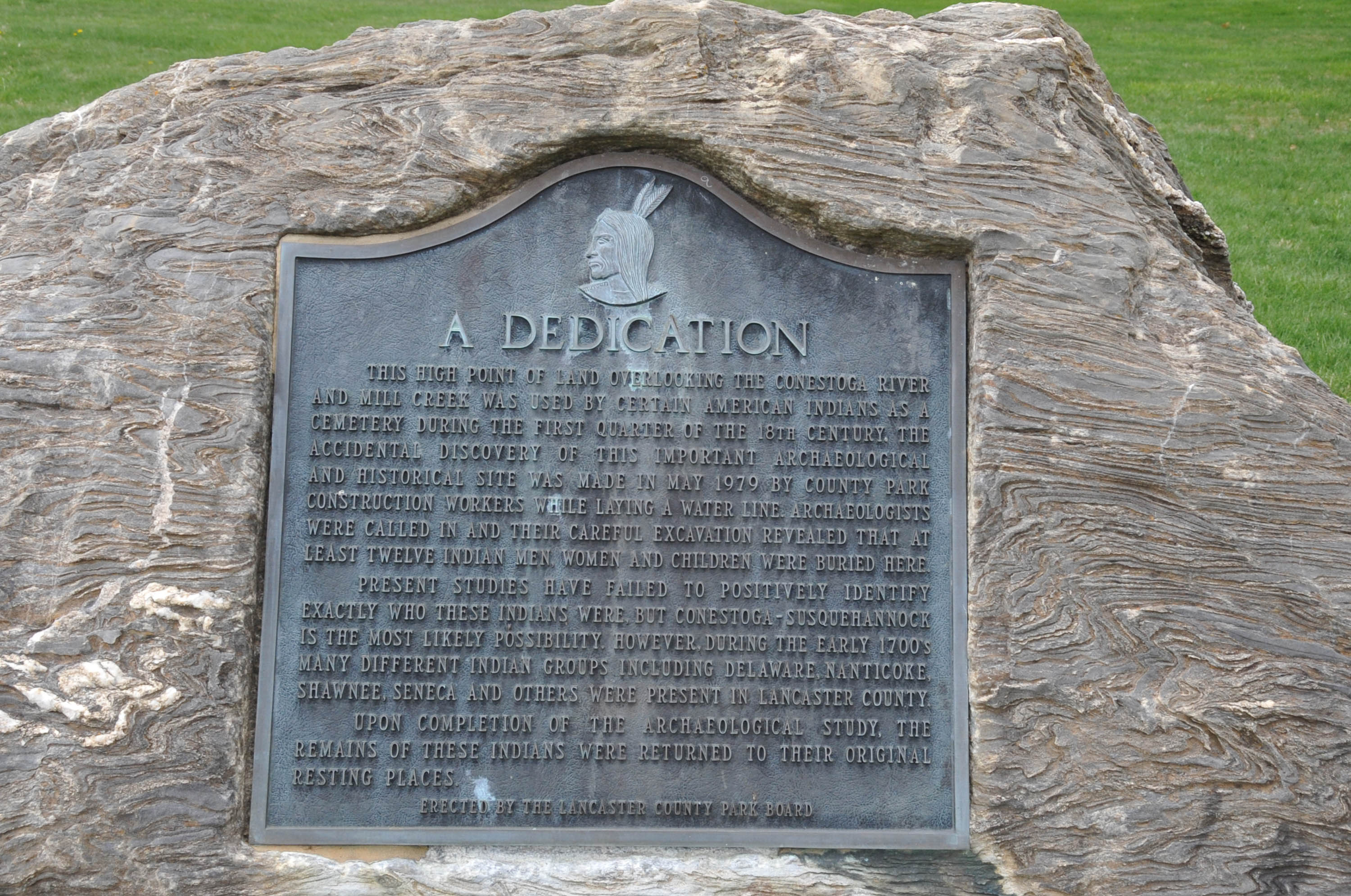 THIS IS THE ACTUAL PLAQUE ON THE BOULDER AT THE SITE